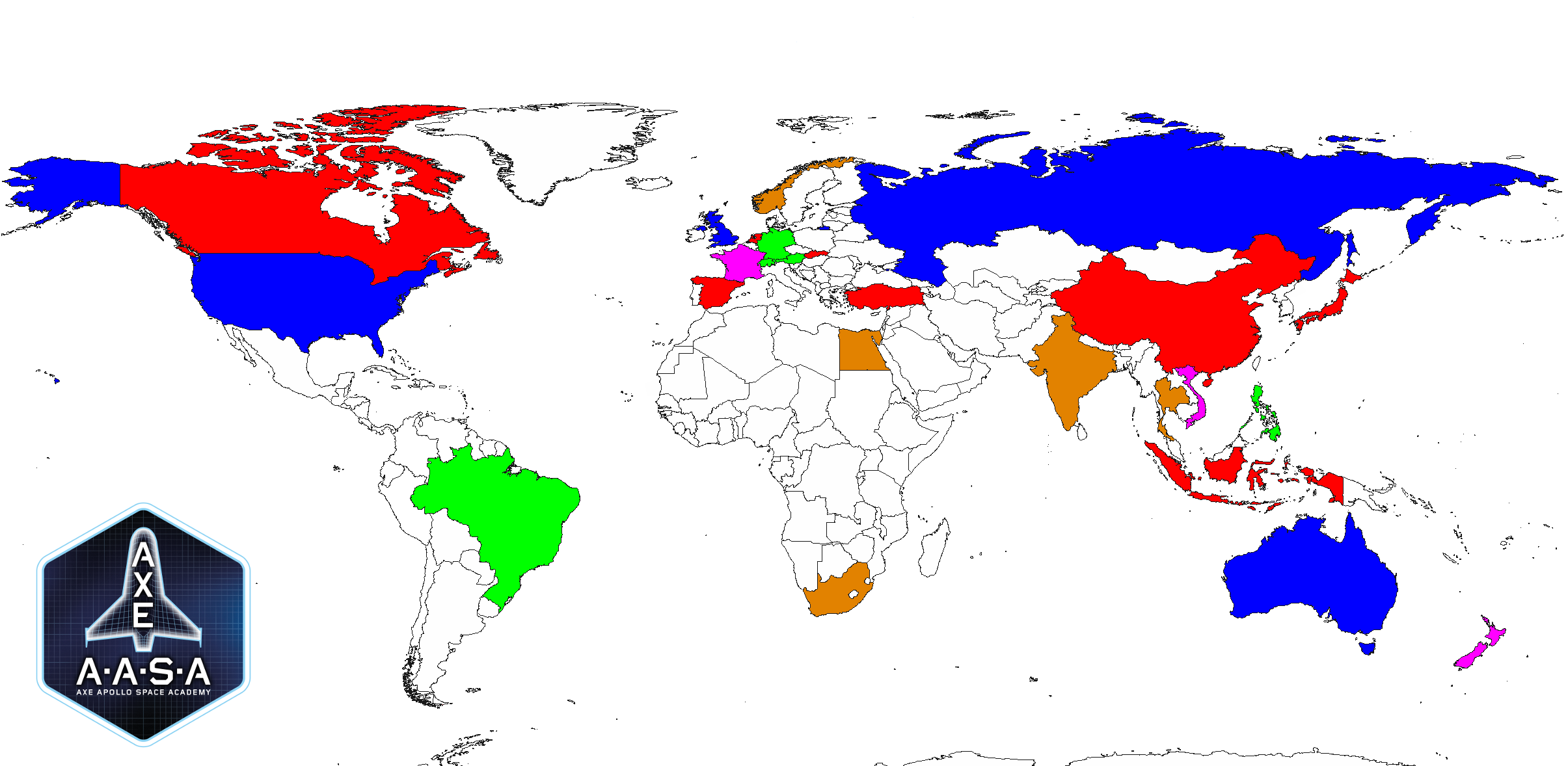 On December 5, 2013, Axe (personal hygiene brand owned by Unilever) selected 23 people to fly in space as part of their Axe Apollo Space Academy program. The individuals are from 23 different countries which are colored in on this world map. The planned space missions would make for several "firsts", such as Chino Roque as the first Filipino astronaut.